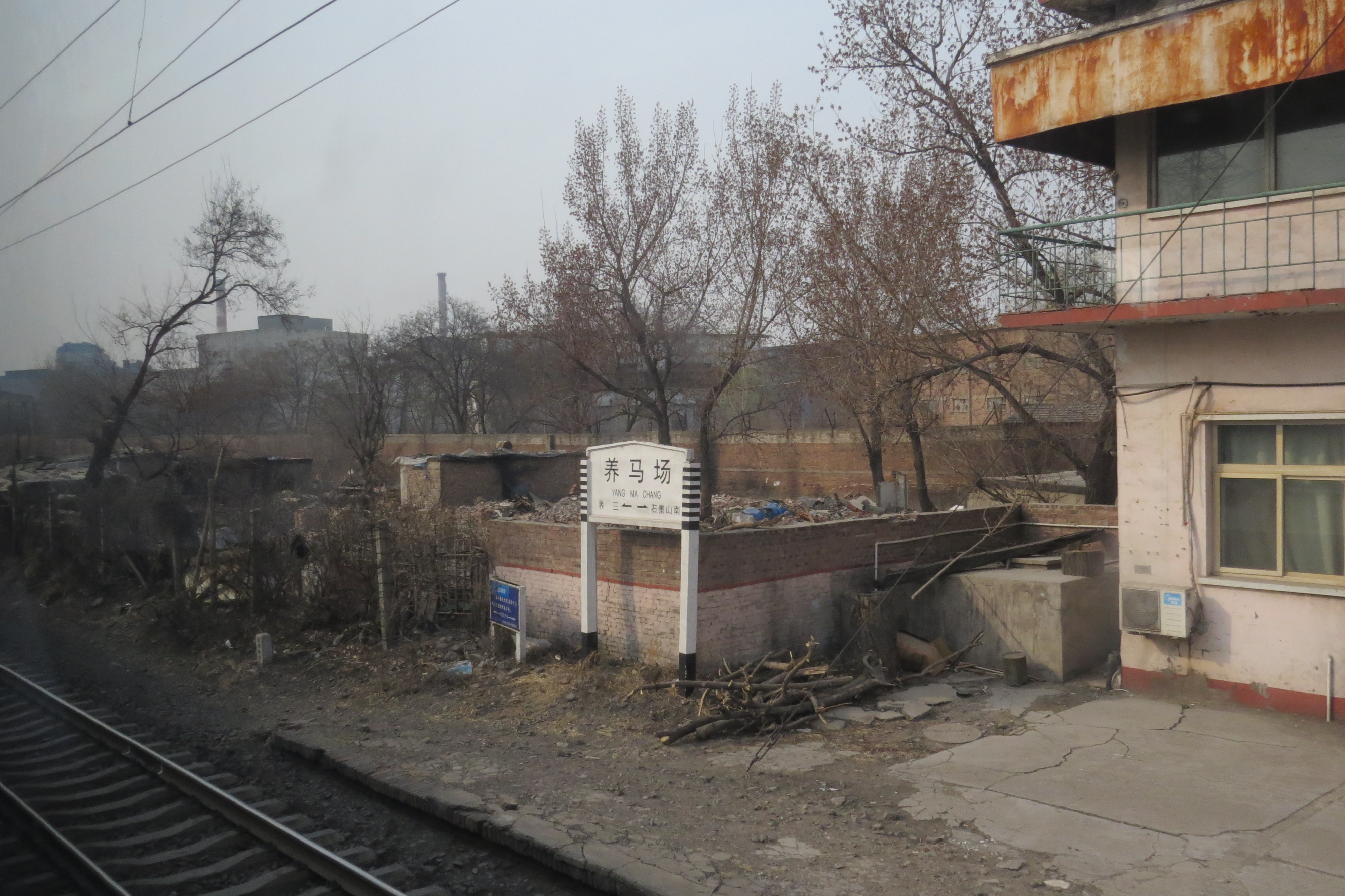 This small station has nothing to do with horse breeding... Taken from Y517.